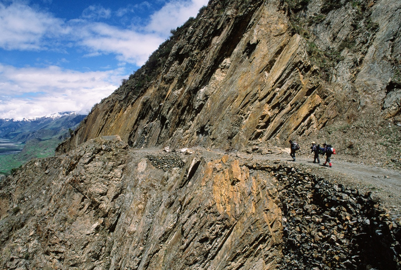 Jeff Fuchs and a team trek along a portion of the Ancient Tea Horse Road in central Tibet.